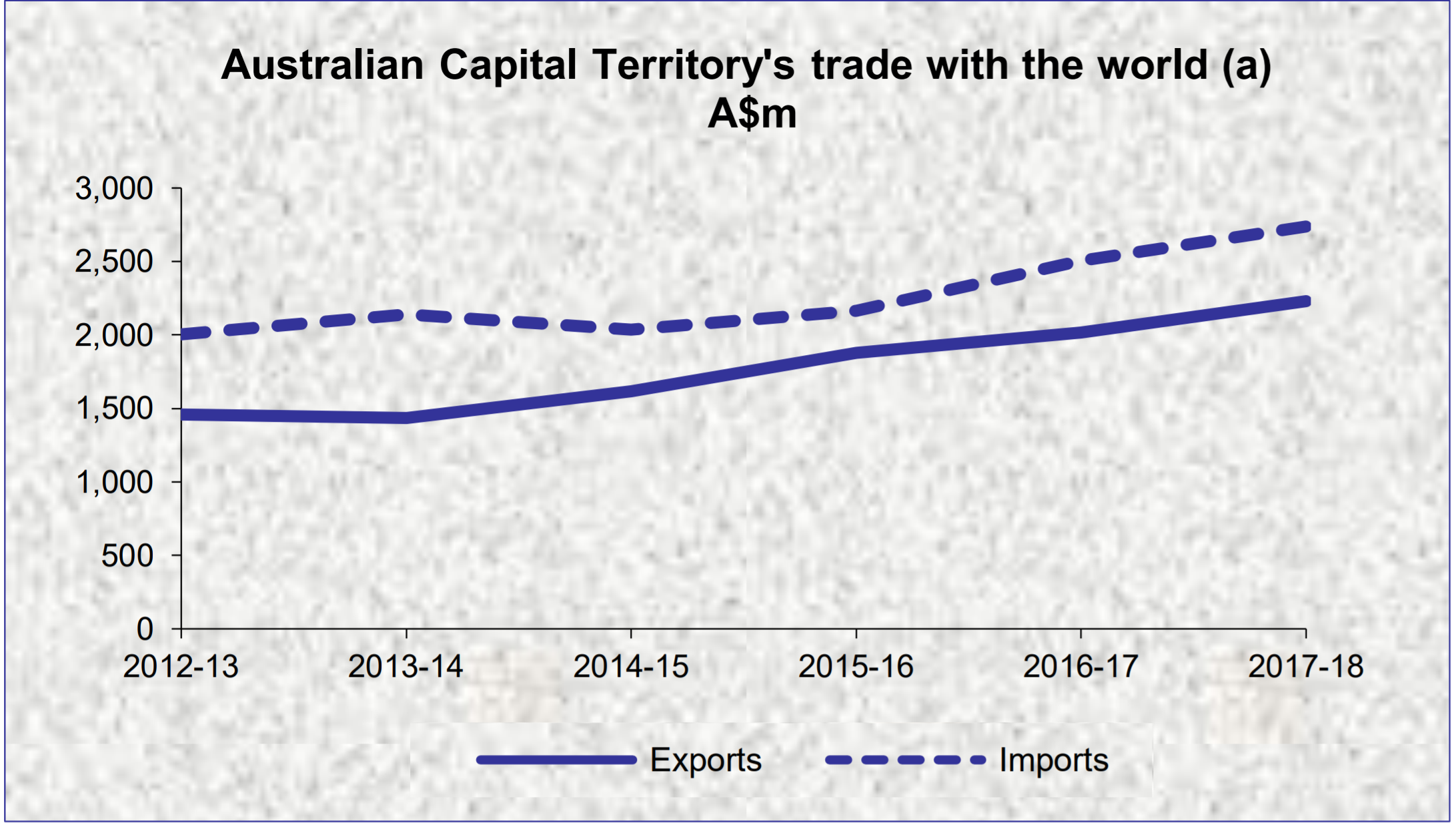 Time series graph on ACT export and import values since 2012-13, provided by Department of Foreign Affairs and Trade.